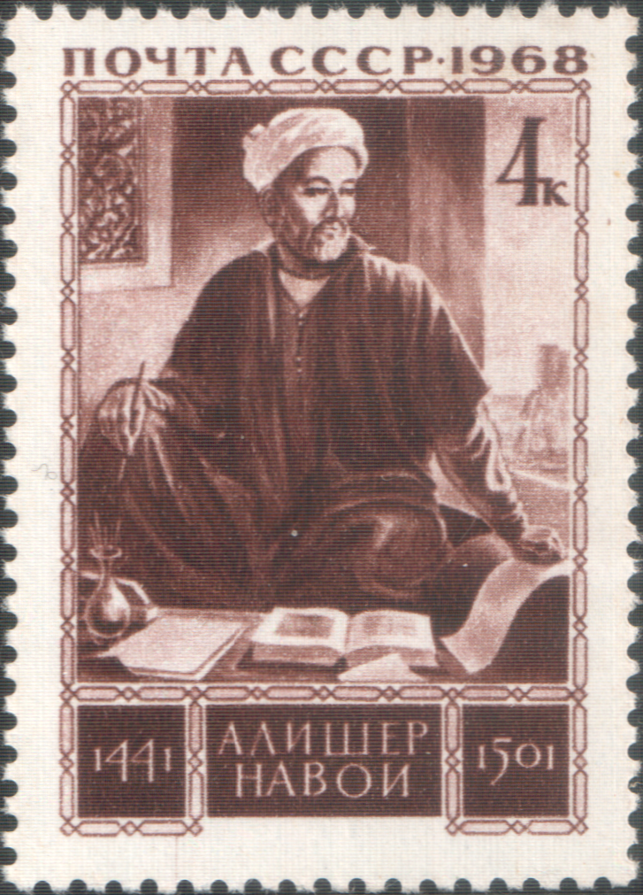 USSR stamp: Ali-Shir Nava'i (after Vladimir Kaidalov (1941—1948)). Series: 525th Birth Anniversary of Ali-Shir Nava'i, Central Asia Turkic Poet and Sufi (1441–1501)